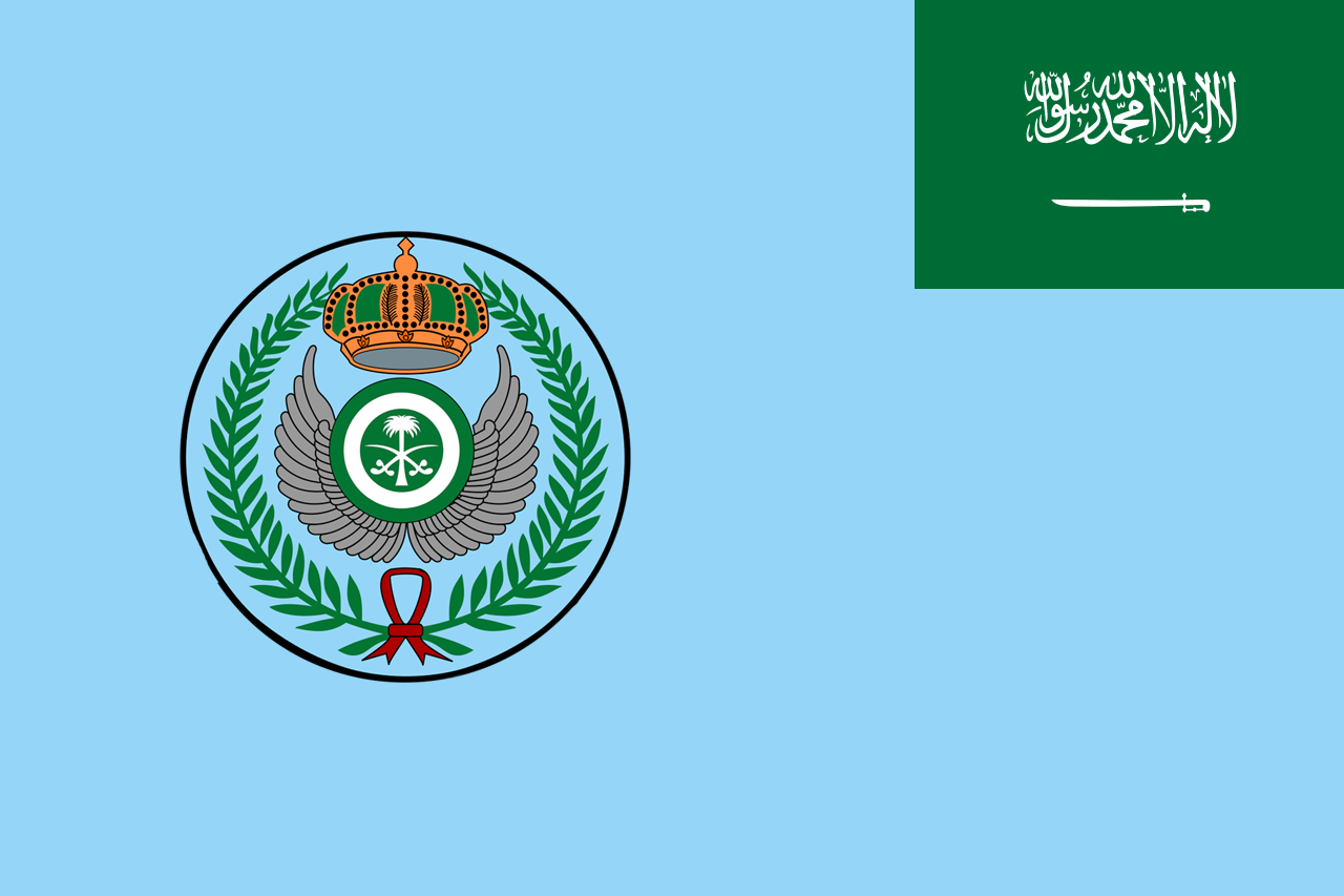 Flag of the Royal Saudi Air Force